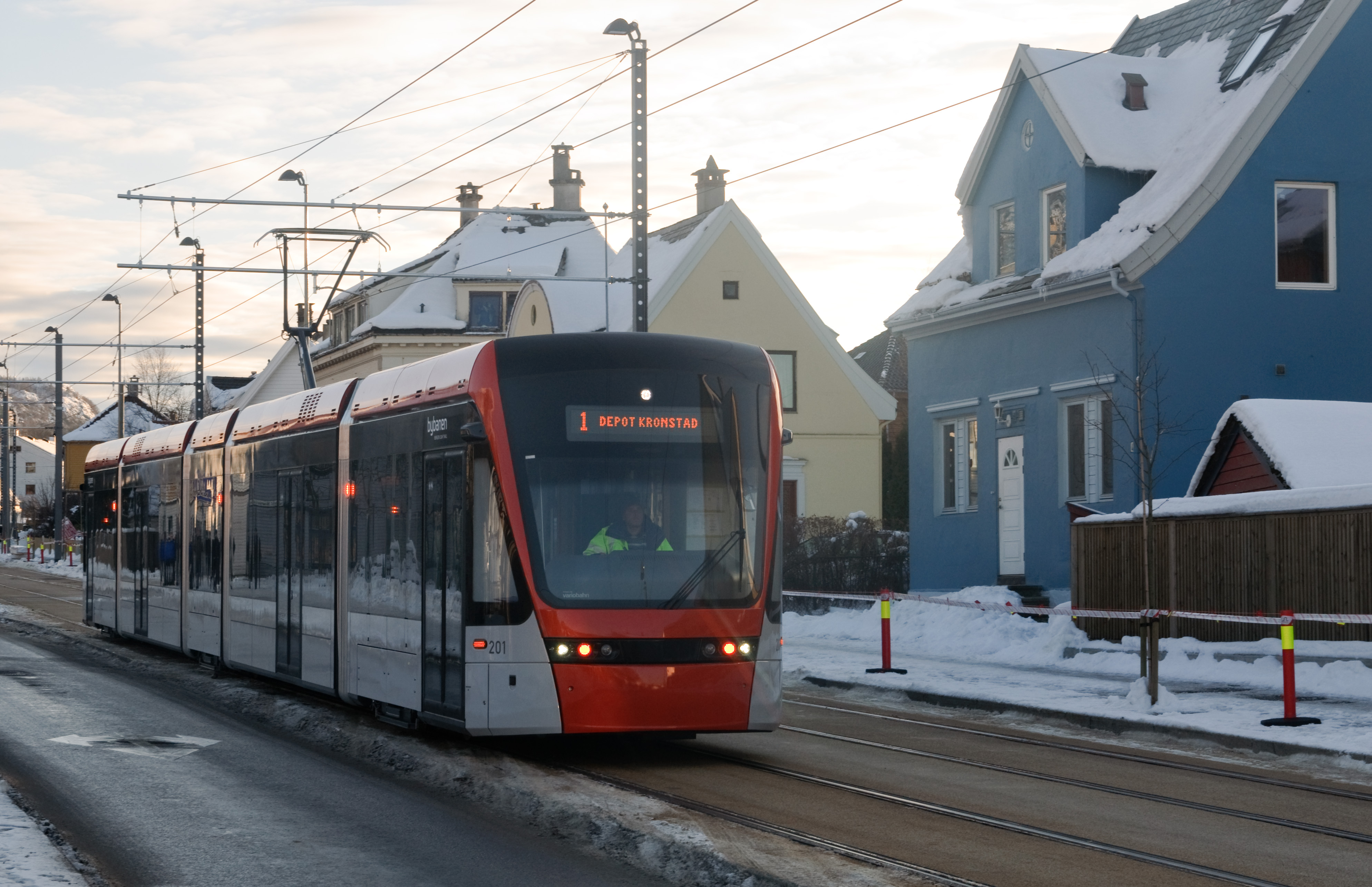 Bergen Light Rail Variotram 201 in Inndalsveien, Bergen, Norway.